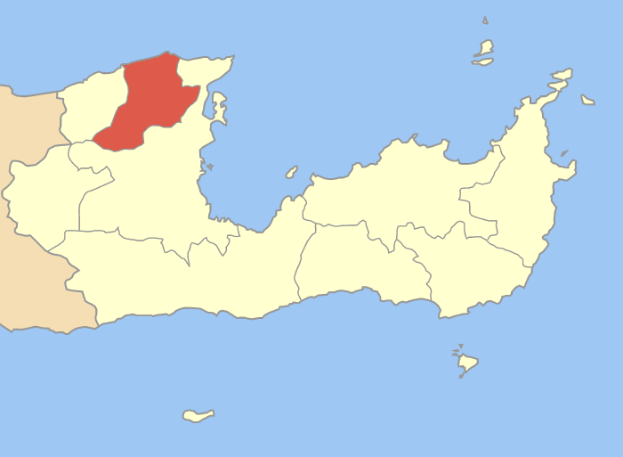 Locator map of Neapoli municipality (Δήμος Νεάπολης) in Lasithi prefecture (Νομός Λασιθίου) in Greece.